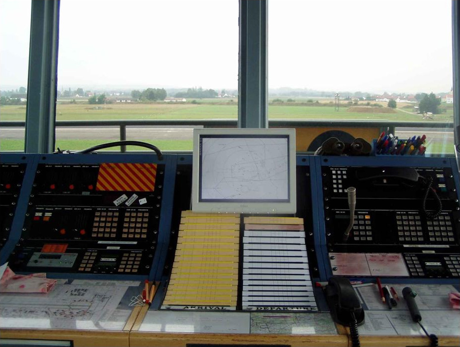 EUROCONTROL CIMACT (Civil-Military Air Traffic Management Co-ordination Tool) Systemonitor at the Control Tower of a NATO assigned fighertierten Jagdhter wing.